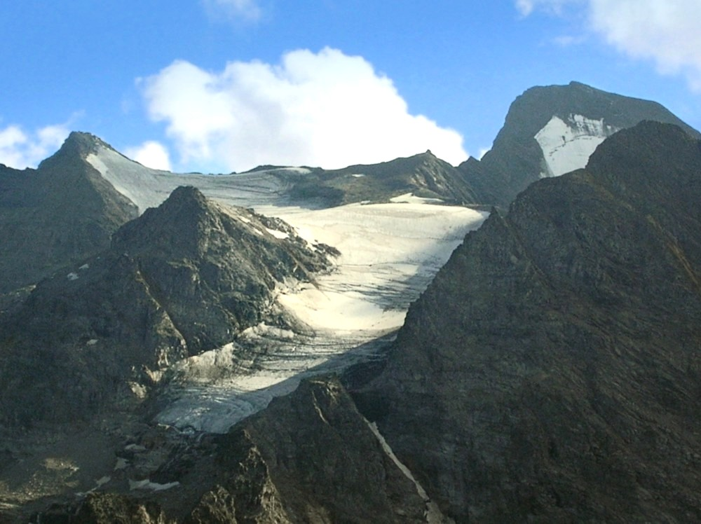 Grande Aiguille Rousse Picture taken and edited by user Idefix august 2005